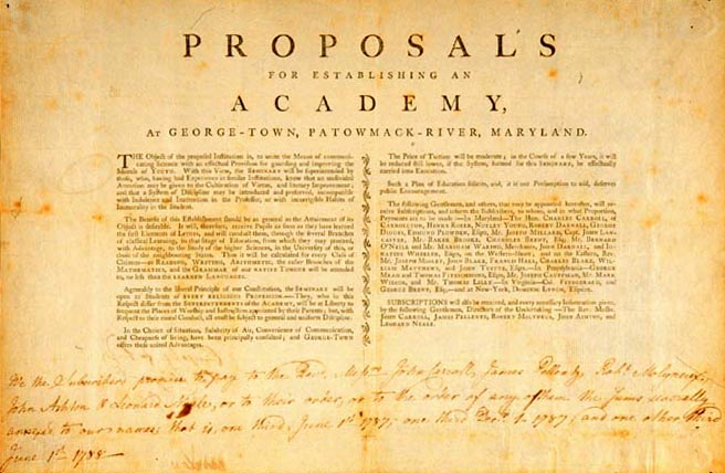 "Proposals for Establishing an Academy, at George-Town, Patowmack River, Maryland.": a proposal to establish what is now Georgetown University.